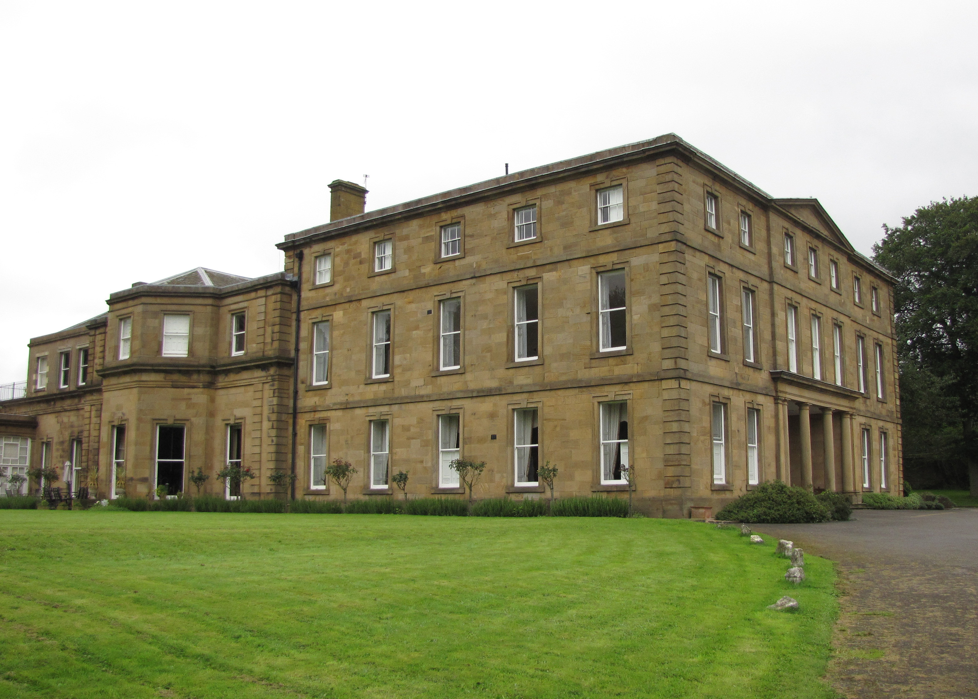 Norton Hall, the former stately home in Norton, a suburb of the City of Sheffield. It is now private apartments.